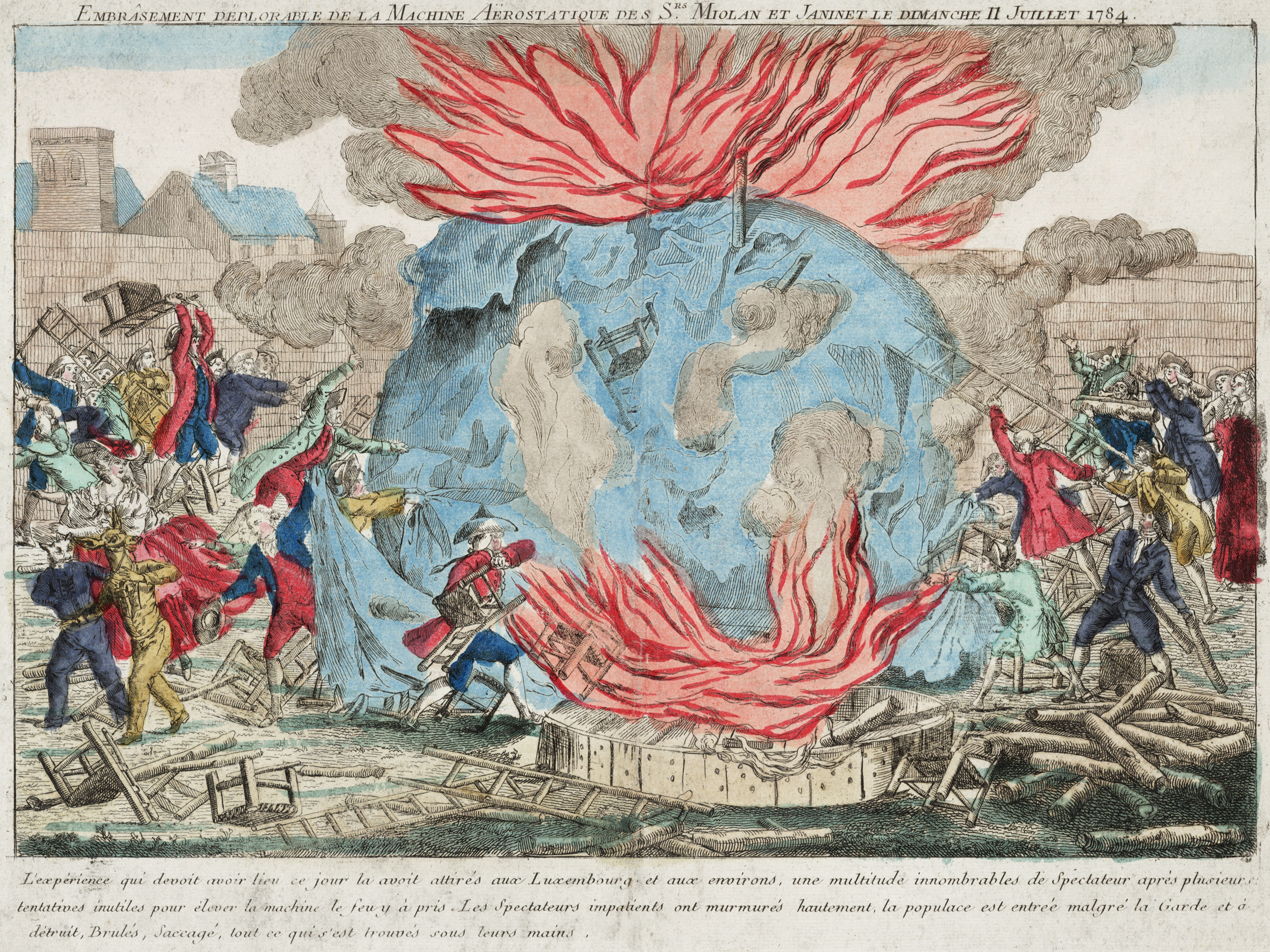 Print shows the balloon of Abbé Miolan and Janinet on fire and billowing smoke while being inflated for an ascension on July 11, 1784 at the Luxembourg gardens in Paris. Abbé Miollan, as a cat, and Janinet, as an ass, walk away as the fire is being fought. The print ridicules the attempt of Abbé Miolan and Janinet to ascend in a hot air balloon.